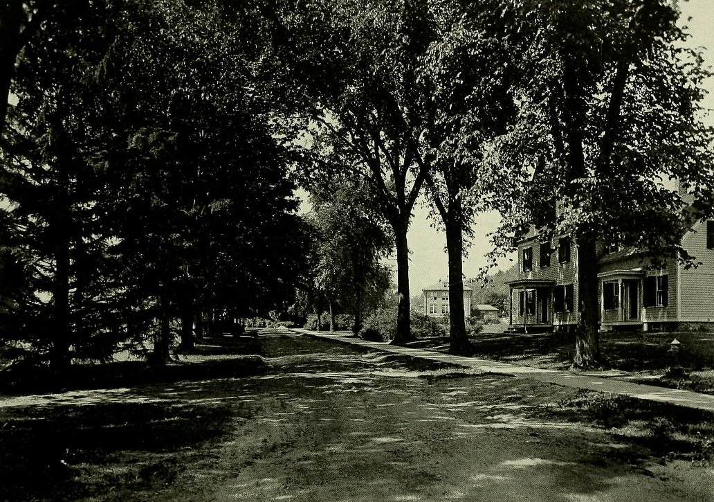 University of Massachusetts Amherst. Looking down Stockbridge Road, East Ridge as it appeared circa 1923.